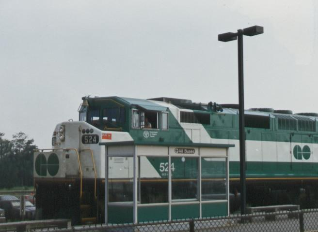 Go Train